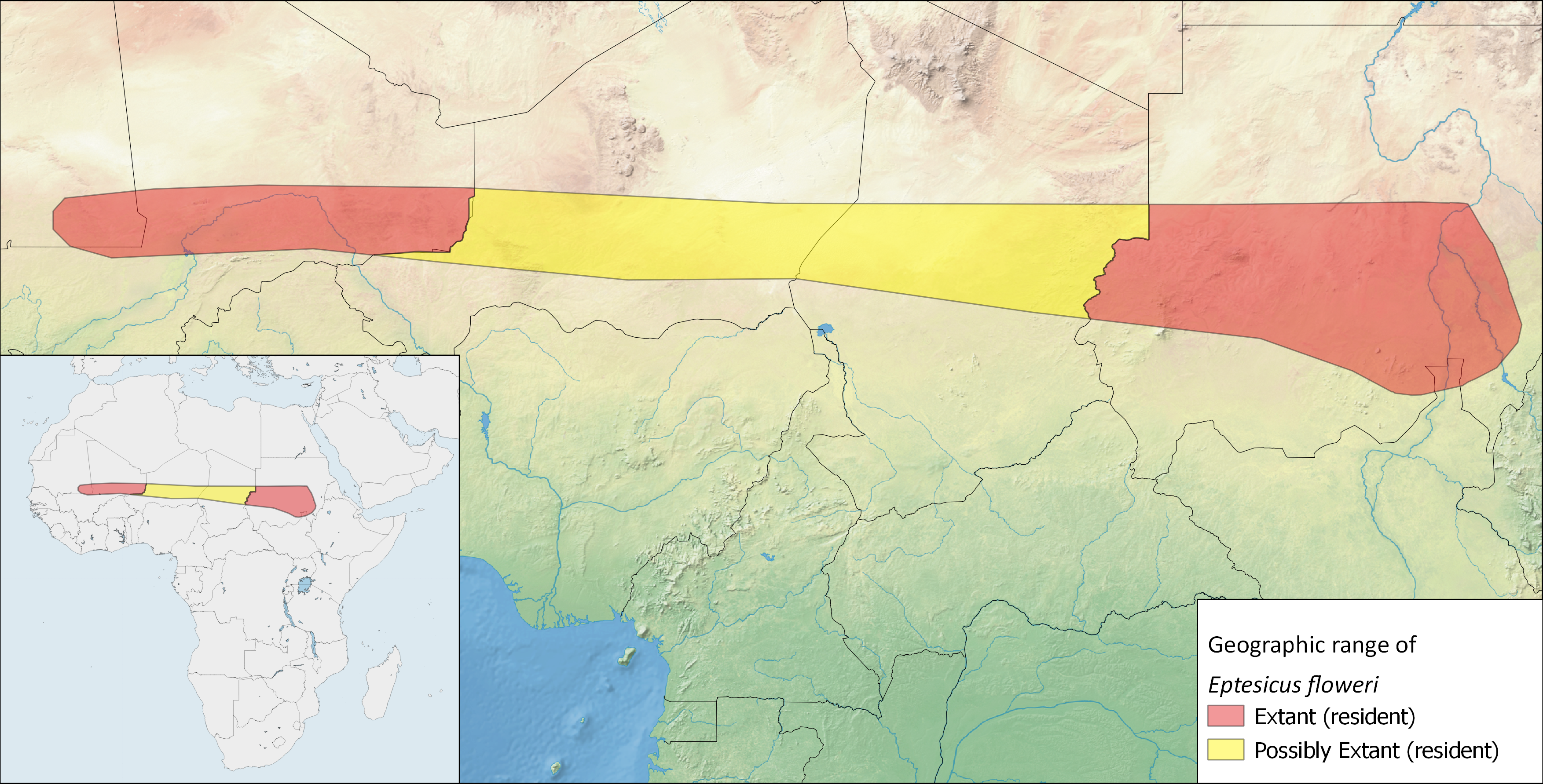 Geographic range of Eptesicus floweri